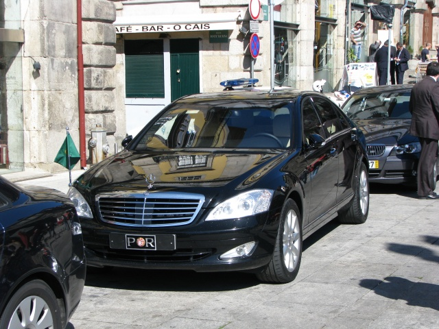 The Presidential Mercedes in Oporto.